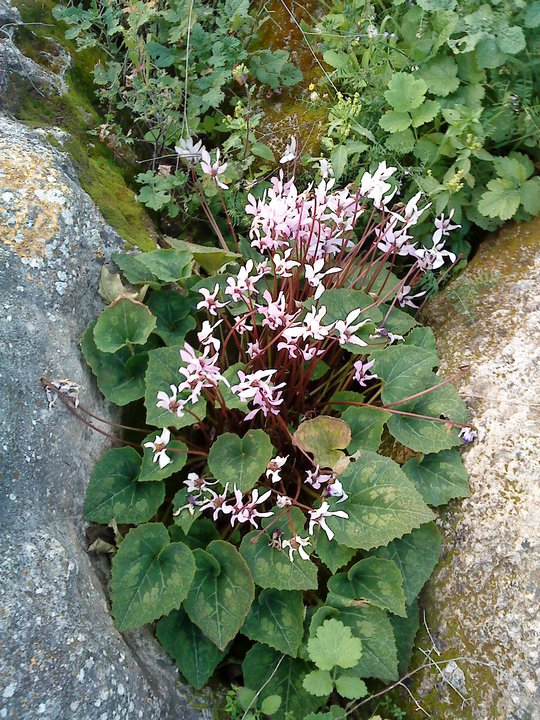 Cyclamen, Plants of Israel